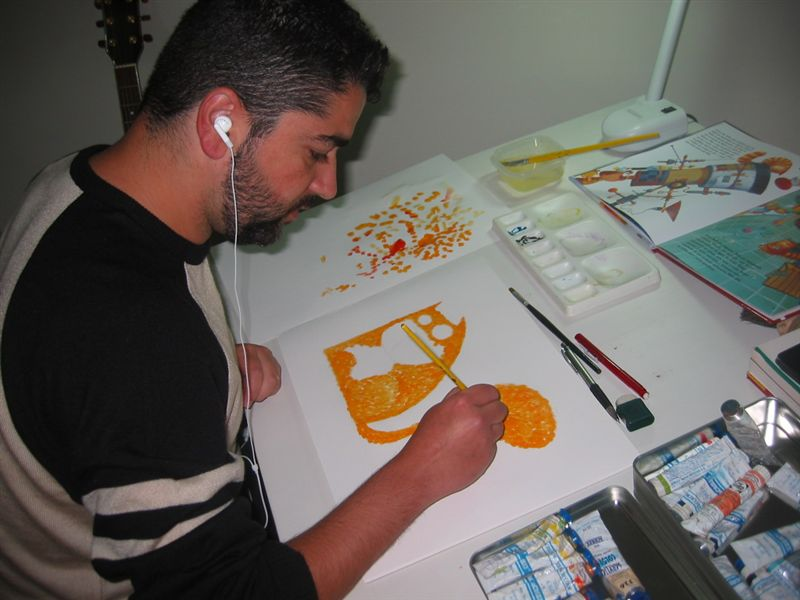 This is a photograph of Everaldo Coelho (website) and has been licensed under GFDL by him.